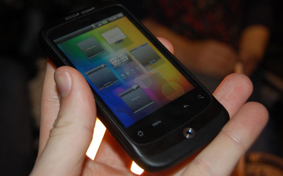 HTC Wildfire